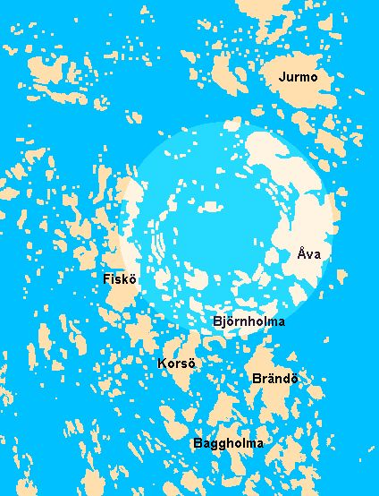 Åva ring structure in Brändö, Åland. It is a ring shaped structure, caused by a 1 billion years old magma chamber that has failed to erupt as a vulcano.